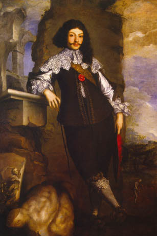 Portrait of Ludovico Windmann